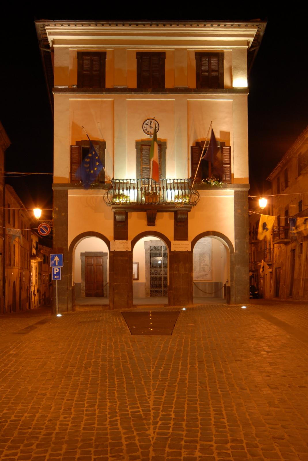 The Town Hall by night